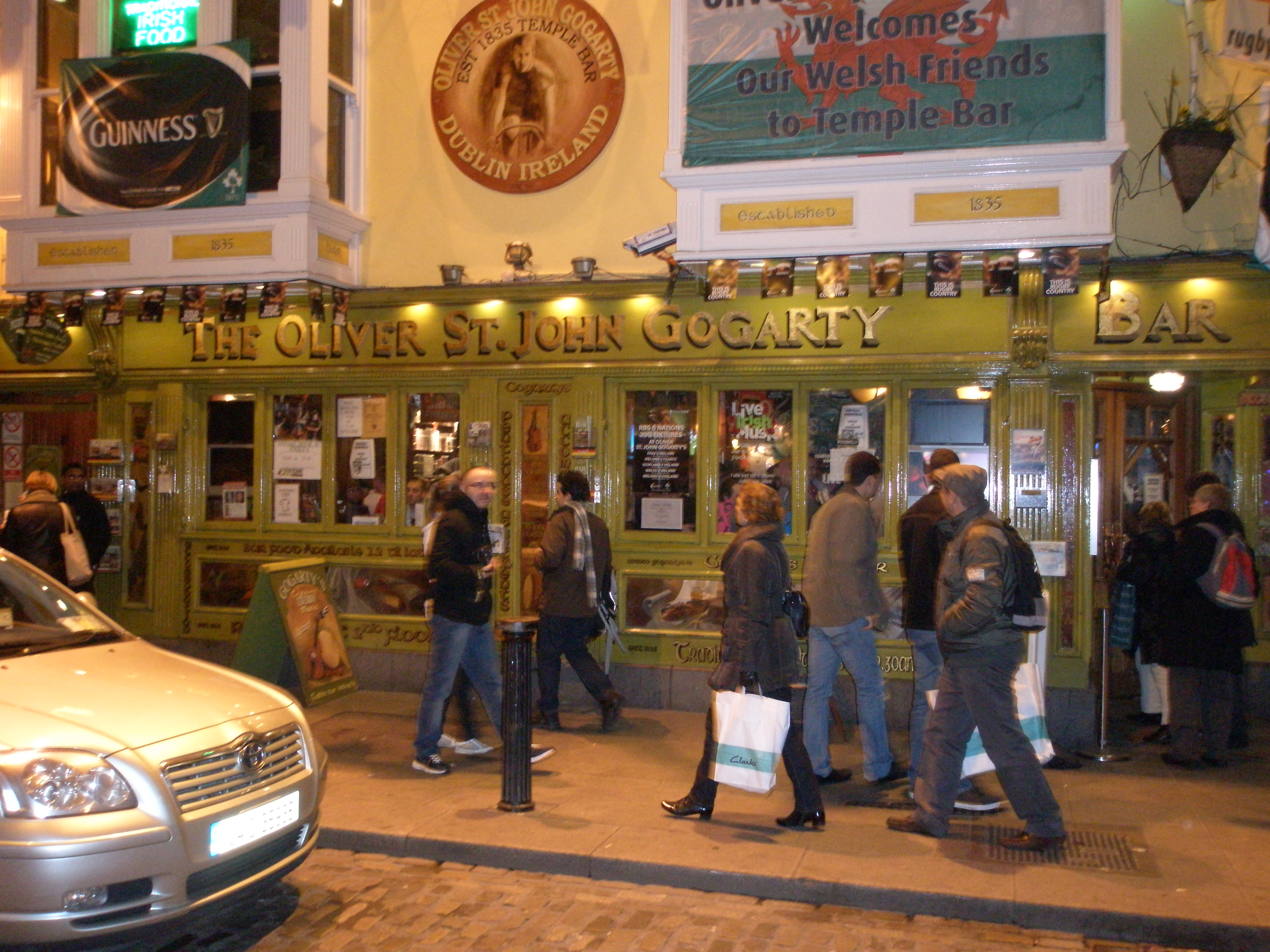 Oliver St. John Gogarty Pub, Dublin